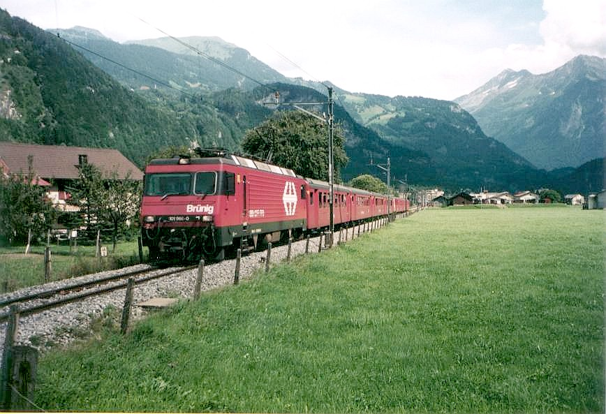 Bruenigbahn Meiringen